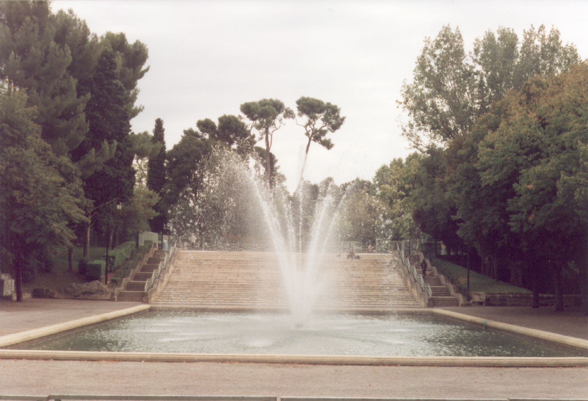 Park Jourdan with fountain in Aix-en-Provence, France.